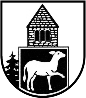 COA of Hartmannsdorf (bei Eisenberg) municipality in the district Saale-Holzland, in Thuringia, Germany.